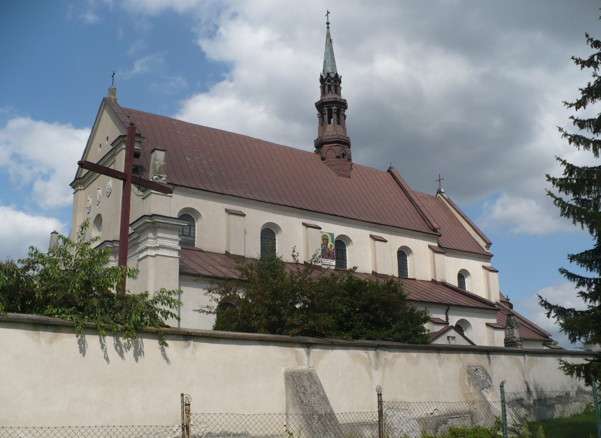 17th century Holy Trinity church in Raków, Poland